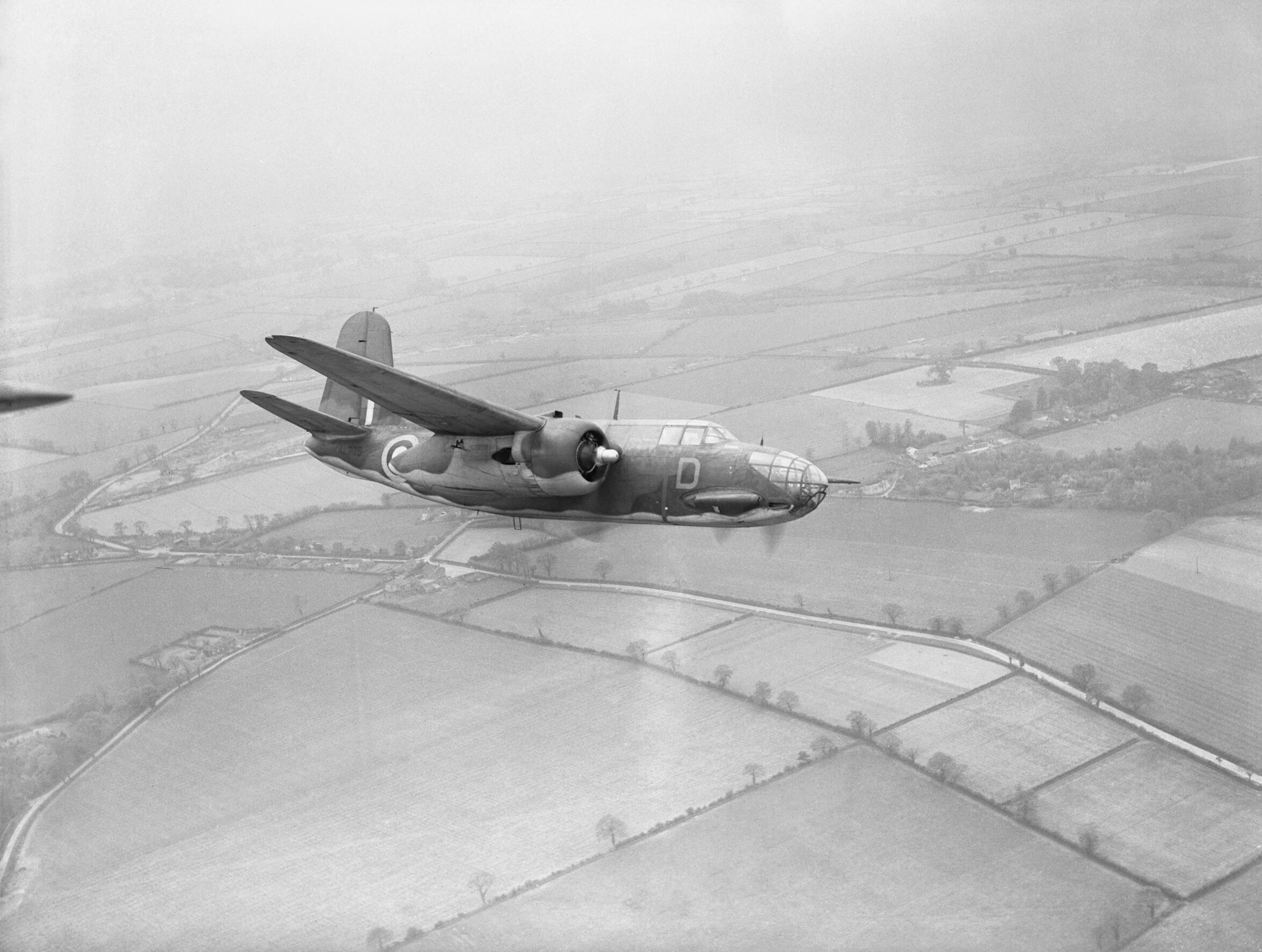 American Aircraft in Royal Air Force Service 1939-1945- Douglas Db7 and Db-7b Boston. Boston Mark III, AL775 ‘RH-D’, of No. 88 Squadron RAF based at Attlebridge, Norfolk, in flight.